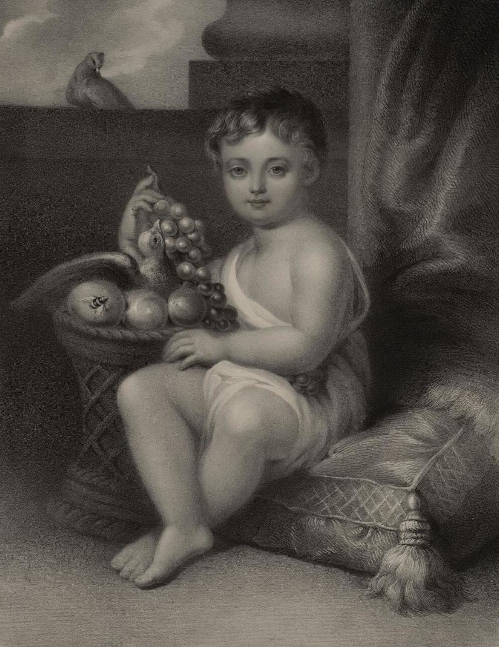 A portrait from the Welsh Portrait Collection at the National Library of Wales. Depicted person: William Russell, 8th Duke of Bedford – British politician